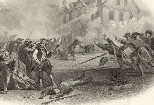 Detail of the Painting, Battle of Germantown